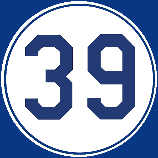 Roy Campanella